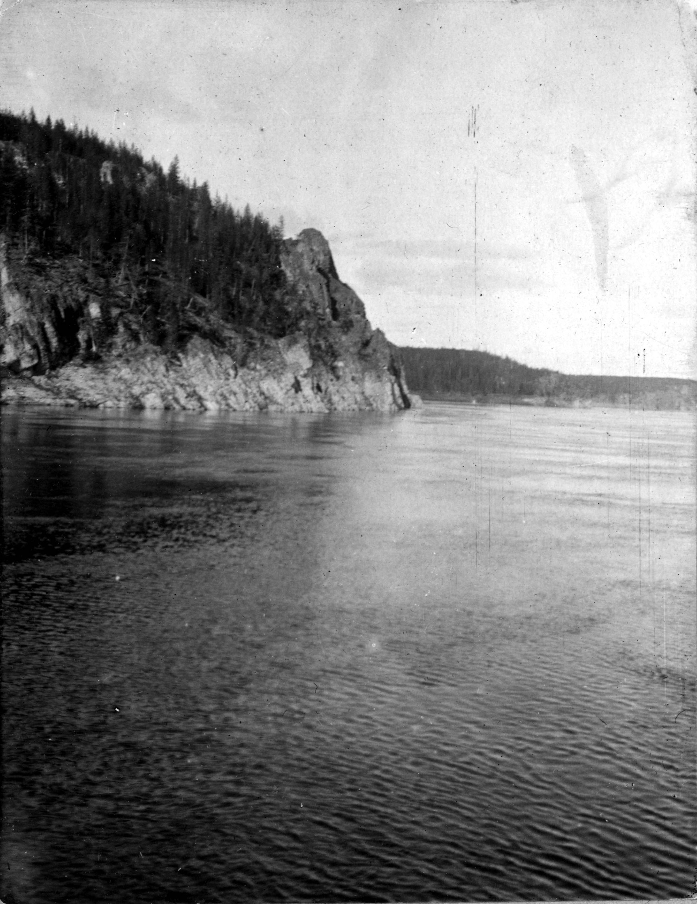 Rocks at N. Tunguska (1927)